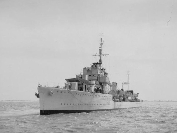 British destroyer HMS FORESIGHT underway.